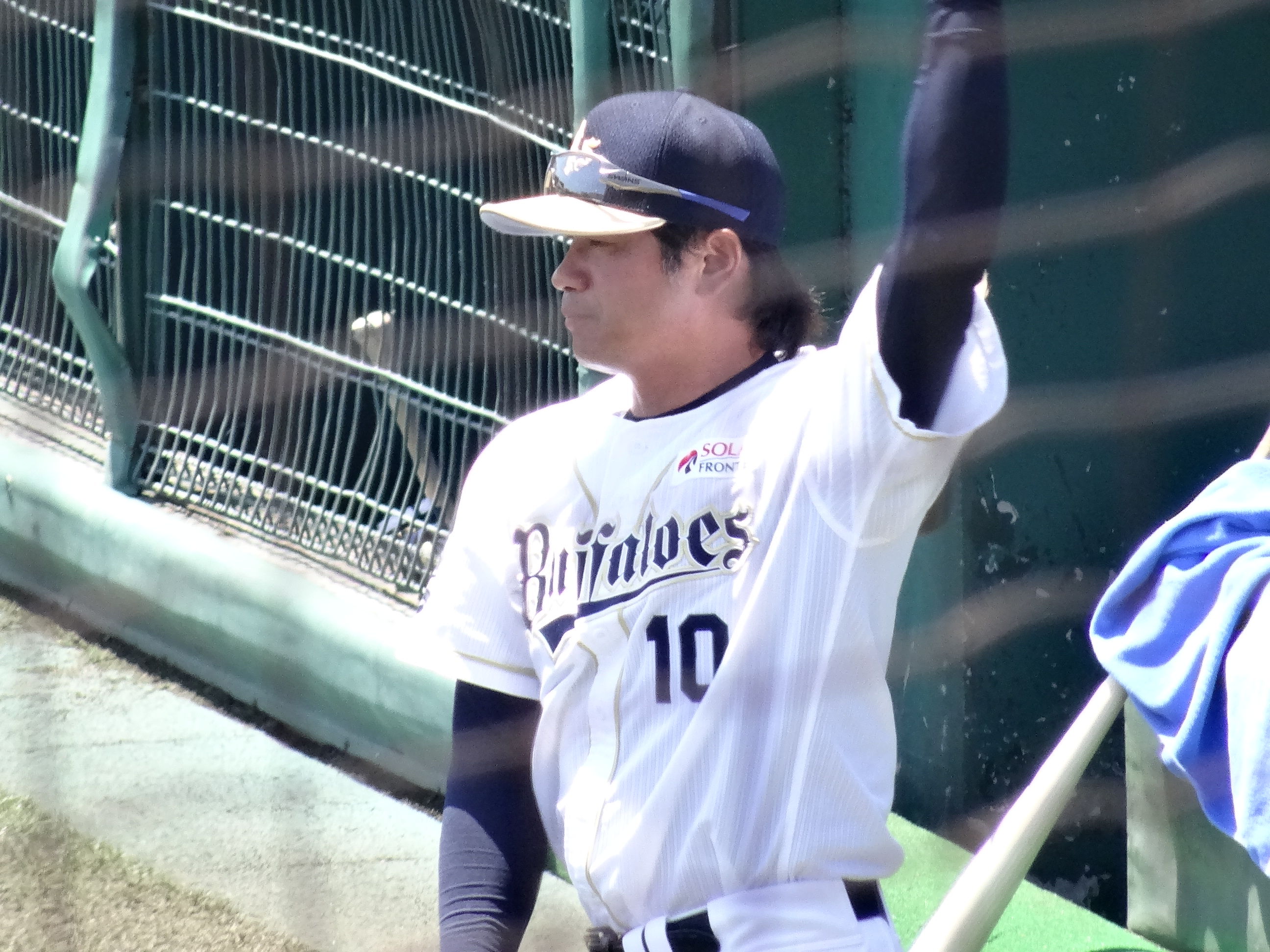 Yoshitomo Tani, outfielder of the Orix Buffaloes, at Kobe Sports Park Sub Baseball Ground.